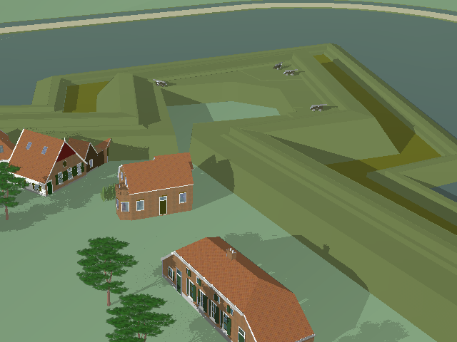 Treurniet, Bredevoort reconstruction